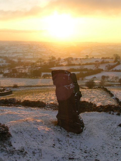 The Alport Stone, a standing stone just below the summit of Alport Height near to Ashleyhay, Derbyshire, Great Britain